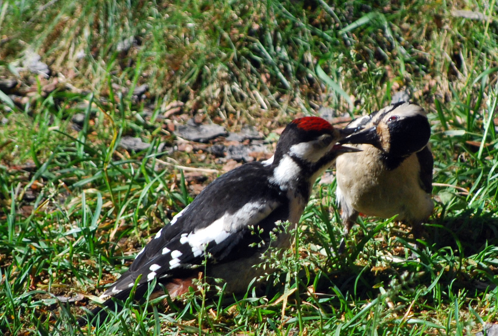 An adult female Great Spotted Woodpecker in Finland. She is feeding her young.